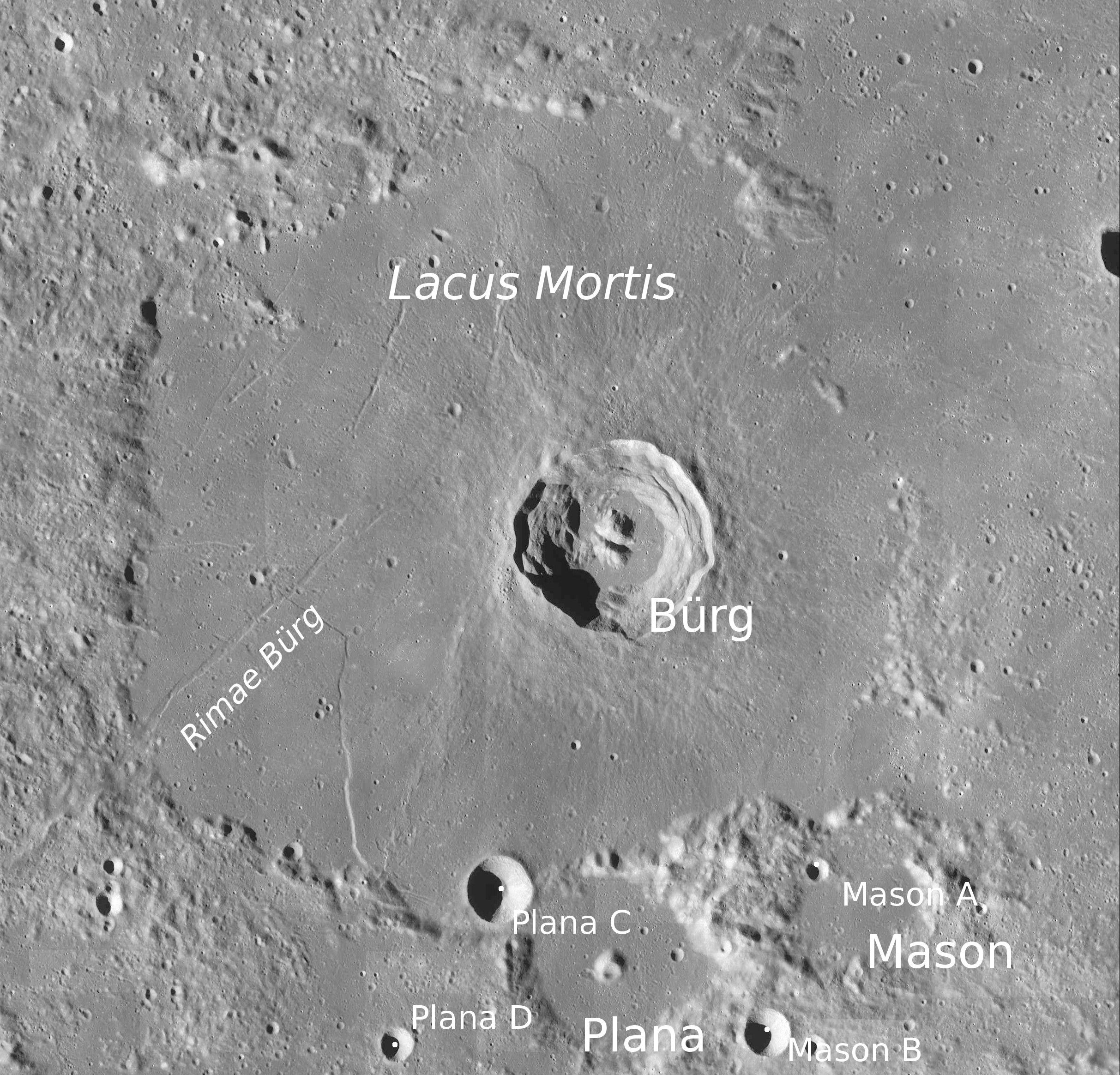 Lacus Mortis with crater Bürg (detail of LRO - WAC global moon mosaic; Mercator projection)